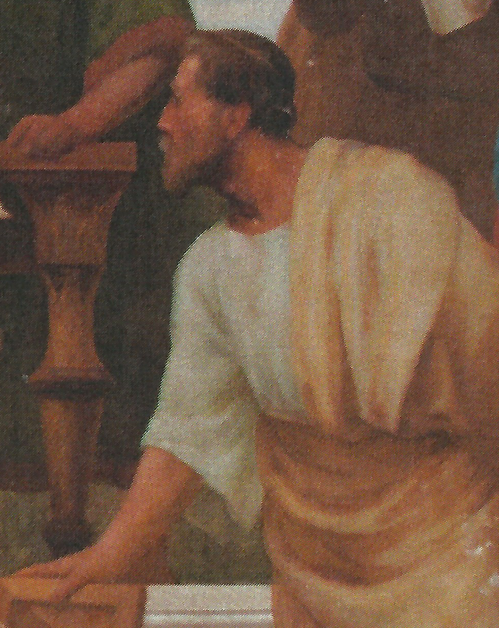 "Medicine in the Middle Ages" (1906), by Veloso Salgado